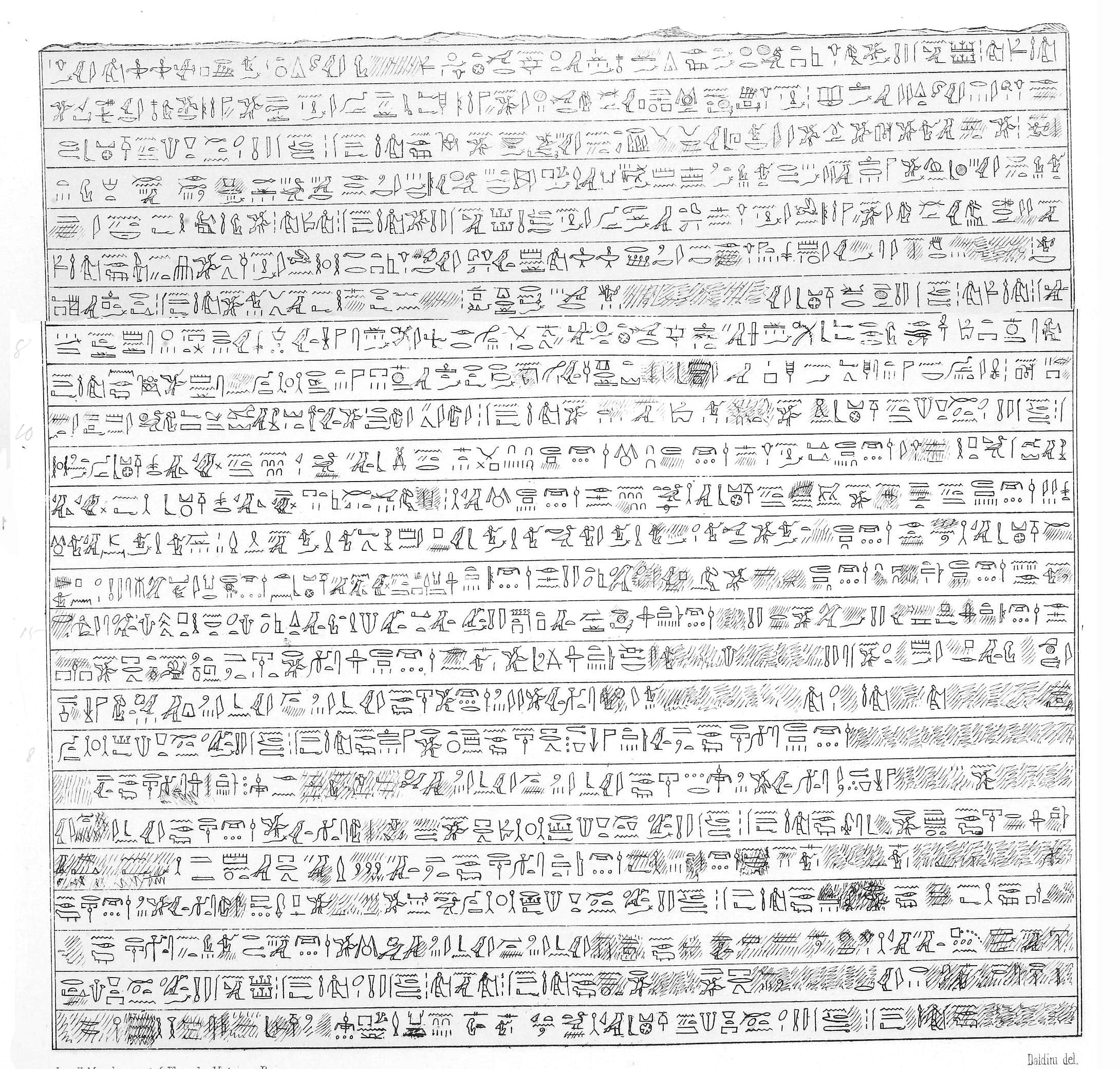 In the mid-10th century BCE, the chief of the Meshwesh Shoshenq asked to pharaoh Psusennes II of the 21st Dynasty, the permission to sculpt a statue honoring the former's father, the chief of the Meshwesh Nimlot. The pharaoh questioned the oracle of Amun at Thebes, which spoke in favor of the request. Having obtained the permission, Shoshenq commemorated this event by raising this dedicatory stela in the temple of Osiris at Abydos. Later, Shoshenq managed to become Psusennes' successor as Hedjkheperre Shoshenq I, founding the 22nd Dynasty of Egypt.